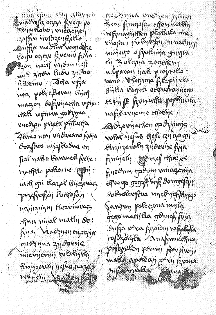 Manuscript of Jezus Chrystus, Bog Człowiek, mądrość Oćca swego.